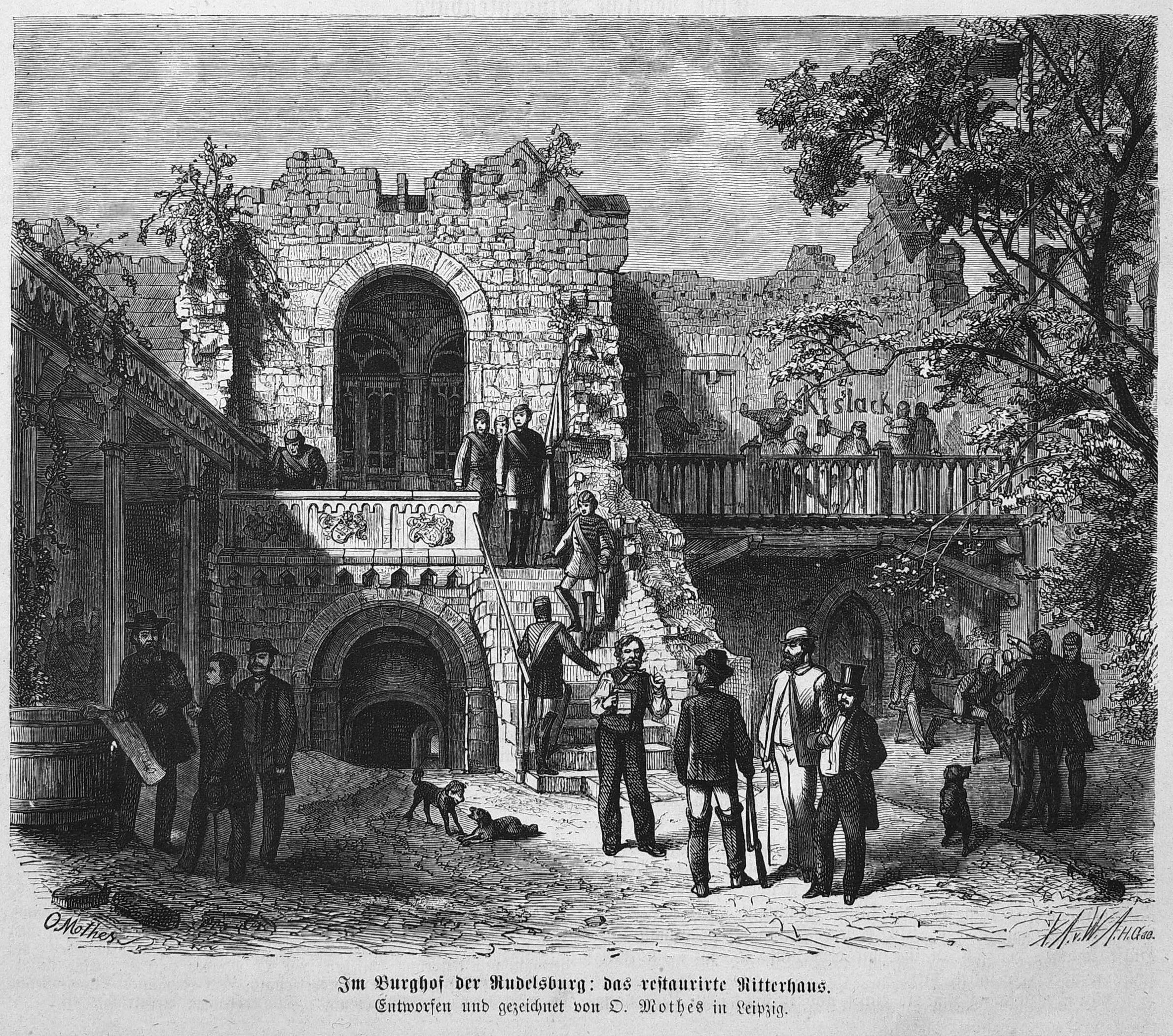 Image from page 329 of book Die Gartenlaube.